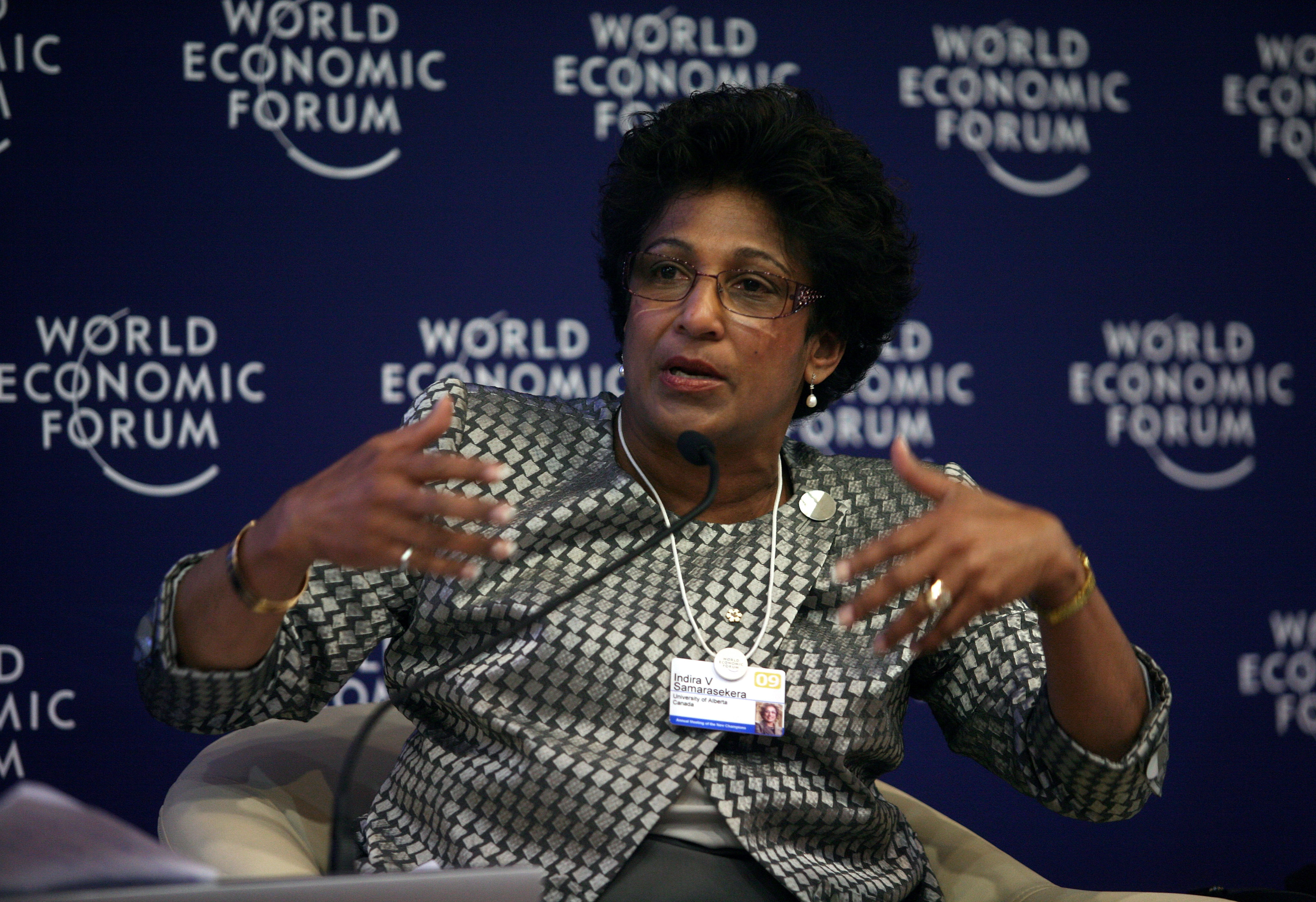 DALIAN/CHINA, 11SEPT09 - Indira V. Samarasekera, President, University of Alberta, speaks during the Education for the Next Wave of Growth session at The World Economic Forum Annual Meeting of the New Champions in Dalian, China 10-12 September 2009.